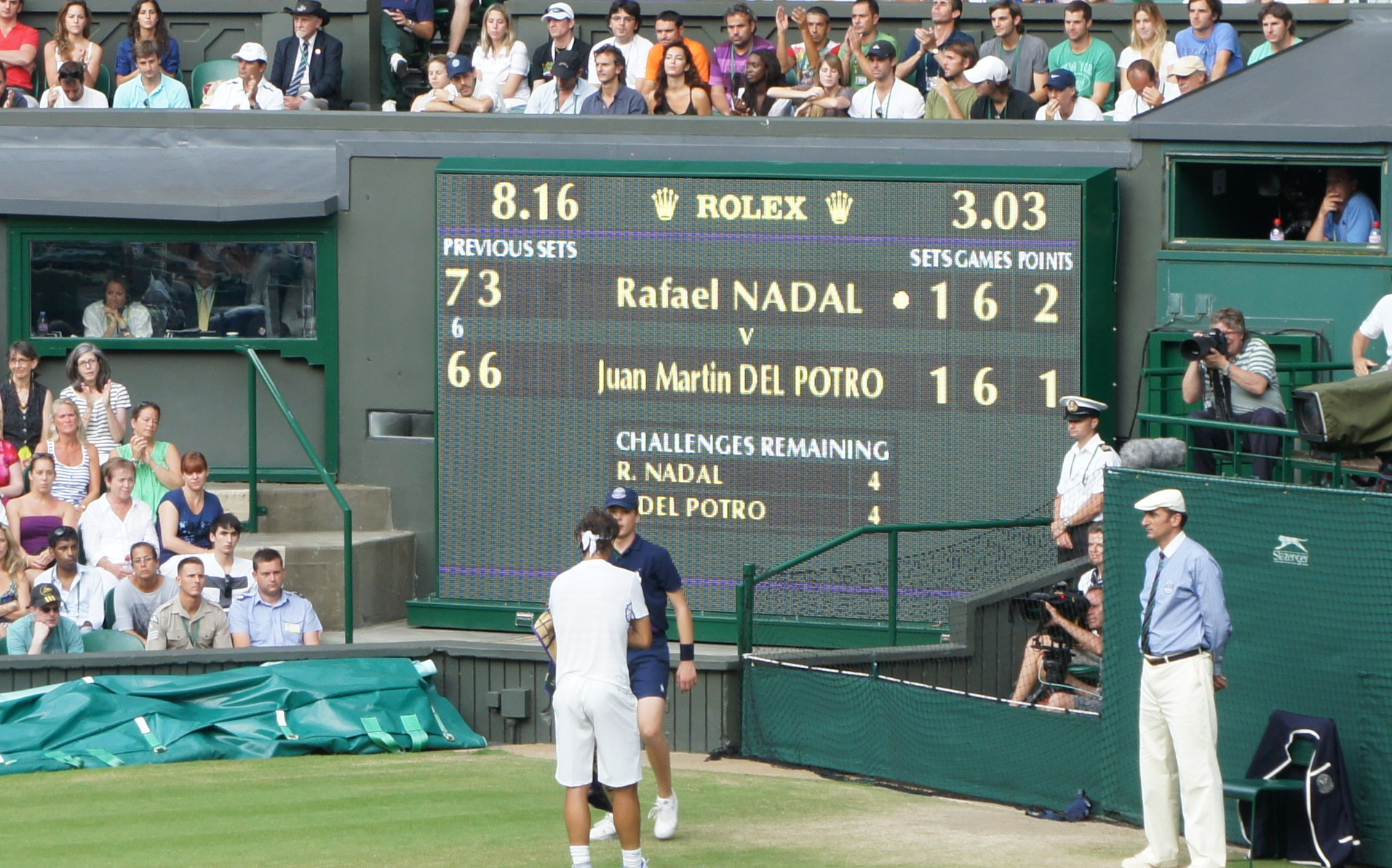 Full image of the Scoreboard which was installed at Centre Court at the Wimbledon Championships in 2008 to replace the previous one